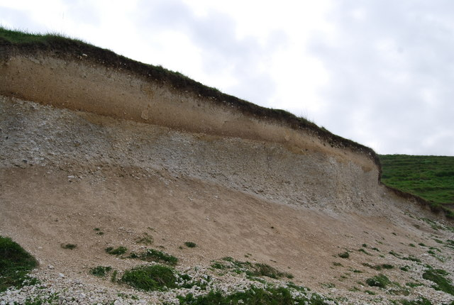 Calcareous Soil Profile, Seven Sisters Country Park A well defined soil profile on chalk. The dark organic ricn humus layer can clearly be seen at the top of the profile. below it is a bleached horizon where nutrients have been leached out & below this is a darker reddish layer of redeposition. At the base of the profile is the weathered bedrock (chalk)the unweathered chalk is hidden. This soil profile is a Rendzina Rendzina